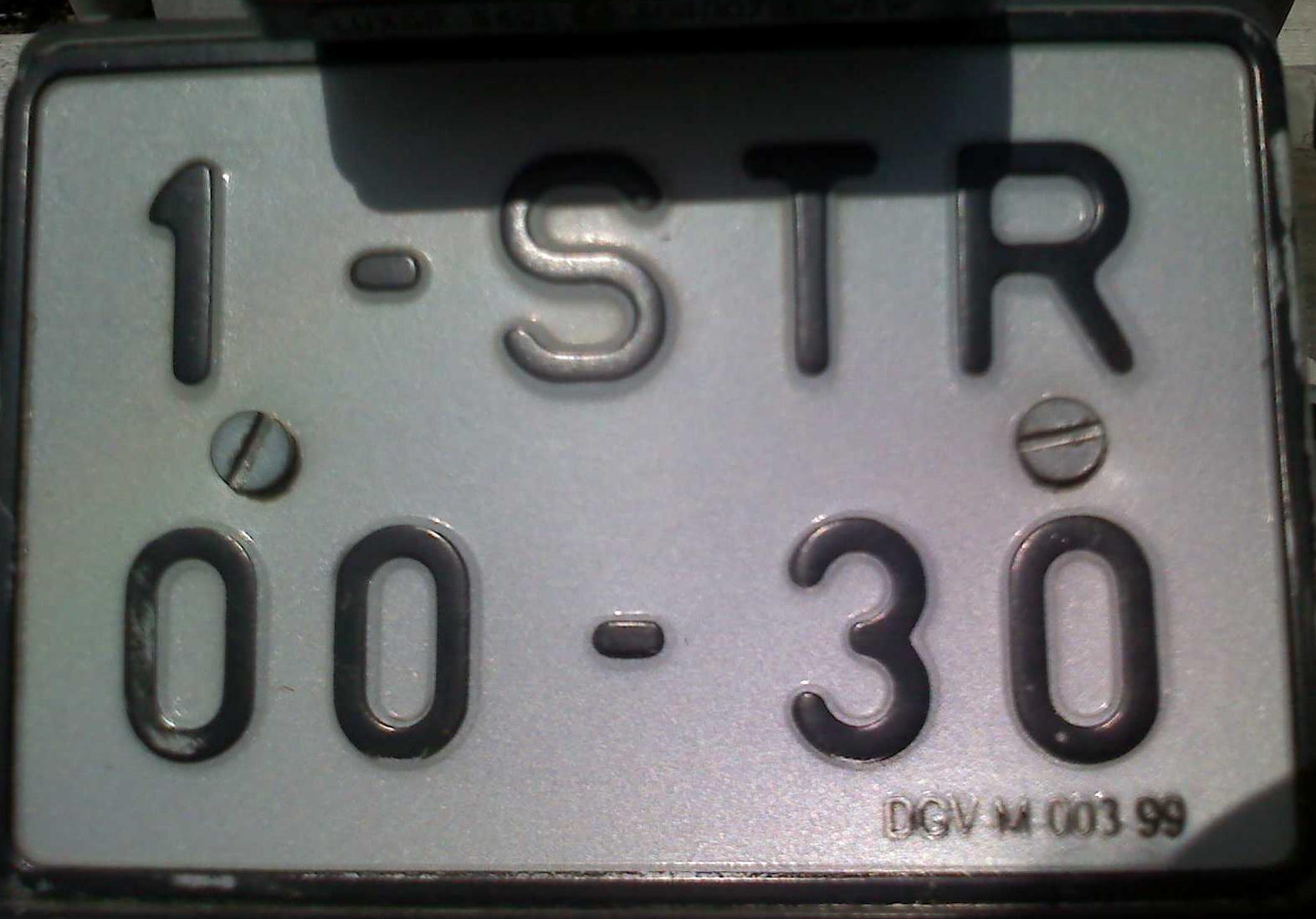 Portuguese motorcycle (less tham 50 cc) former license plate